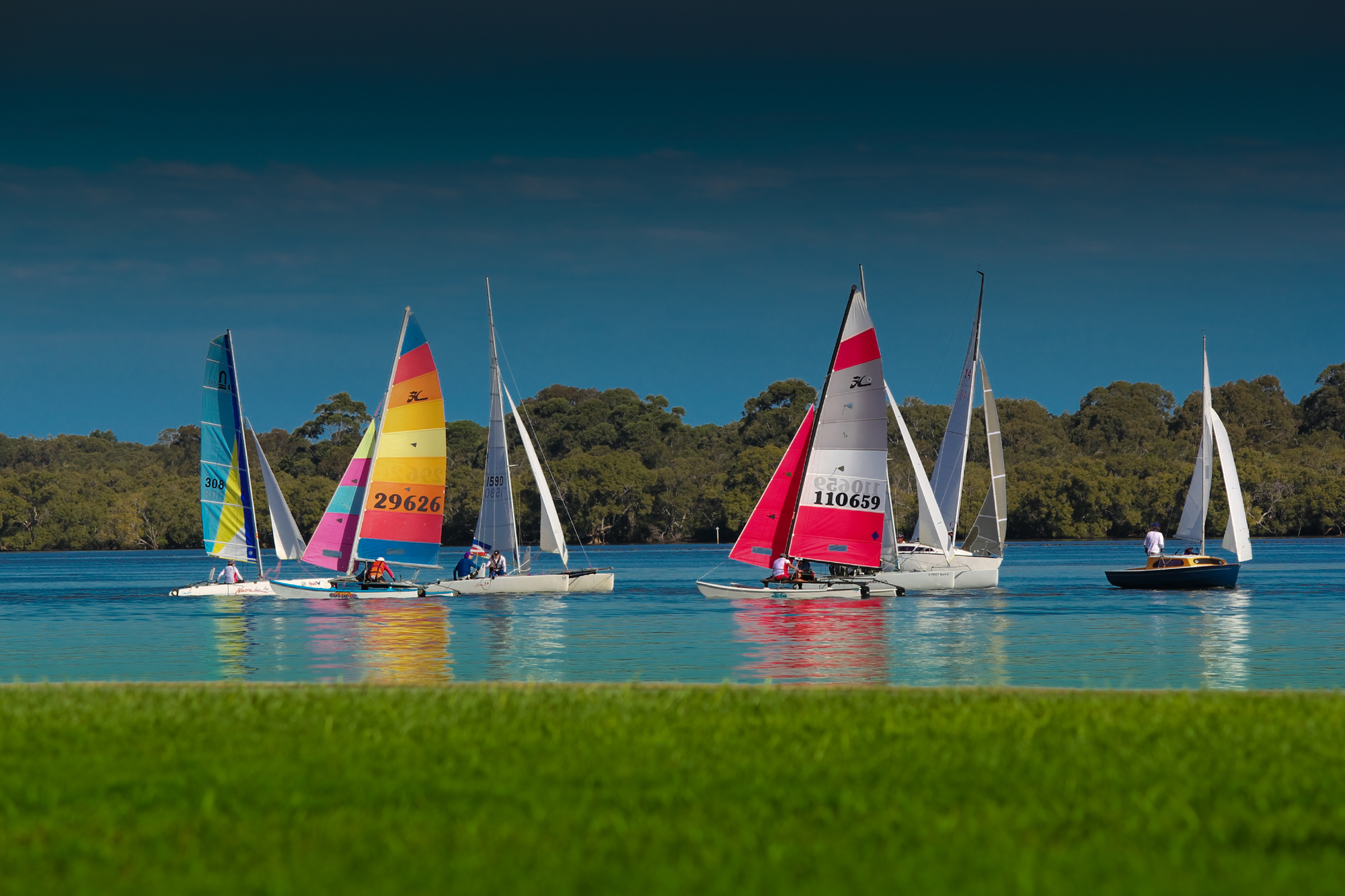 Boats on the Ricmond River at Ballina, Northern Rivers, New South Wales